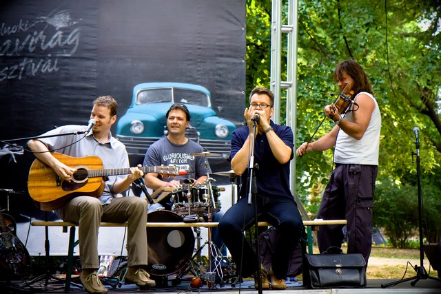 Todays - 2009